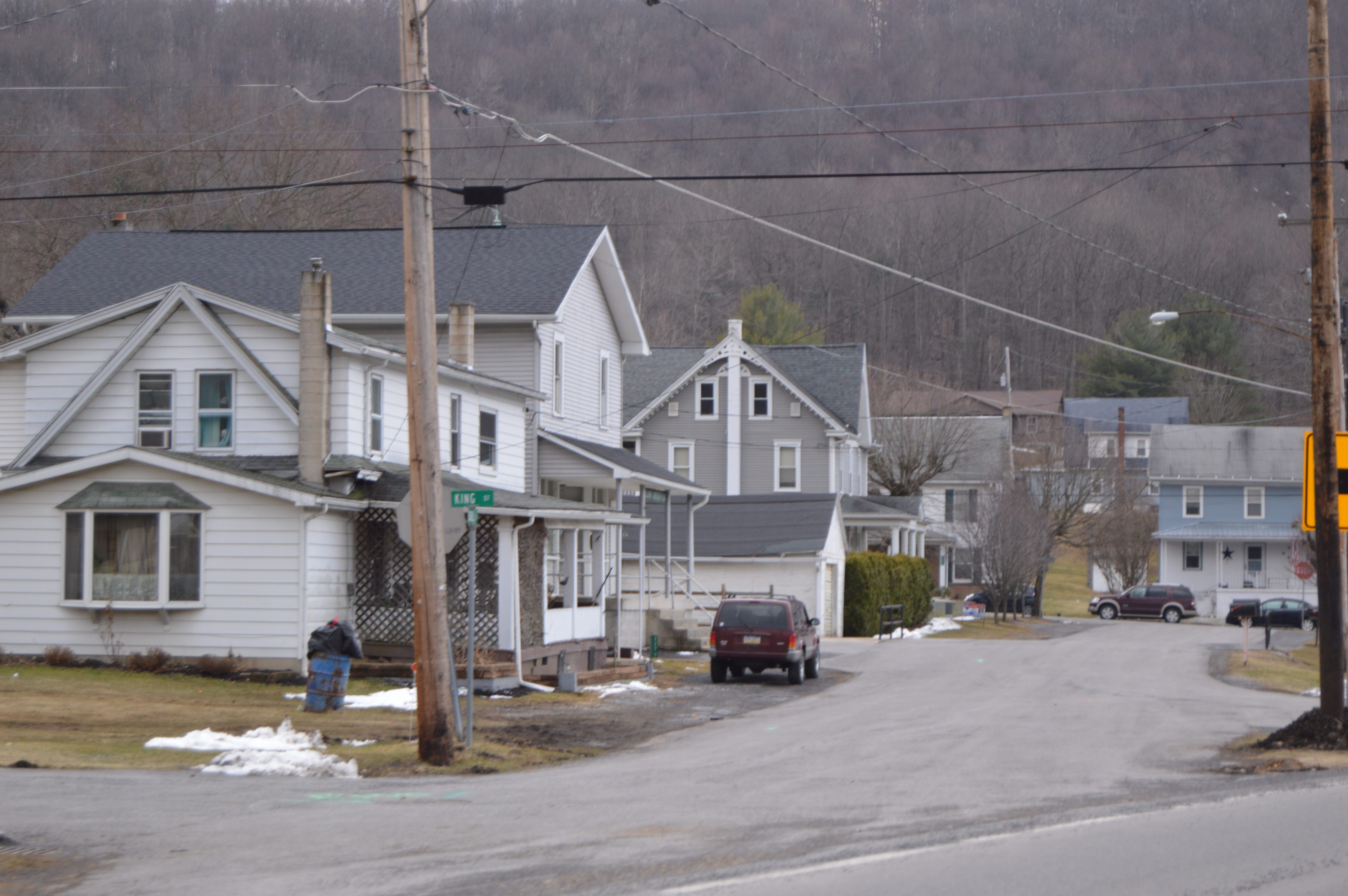 Houses at the junction of Barnett Road (Pennsylvania Route 913) with Schell and King Streets in Coalmont, Pennsylvania, United States.